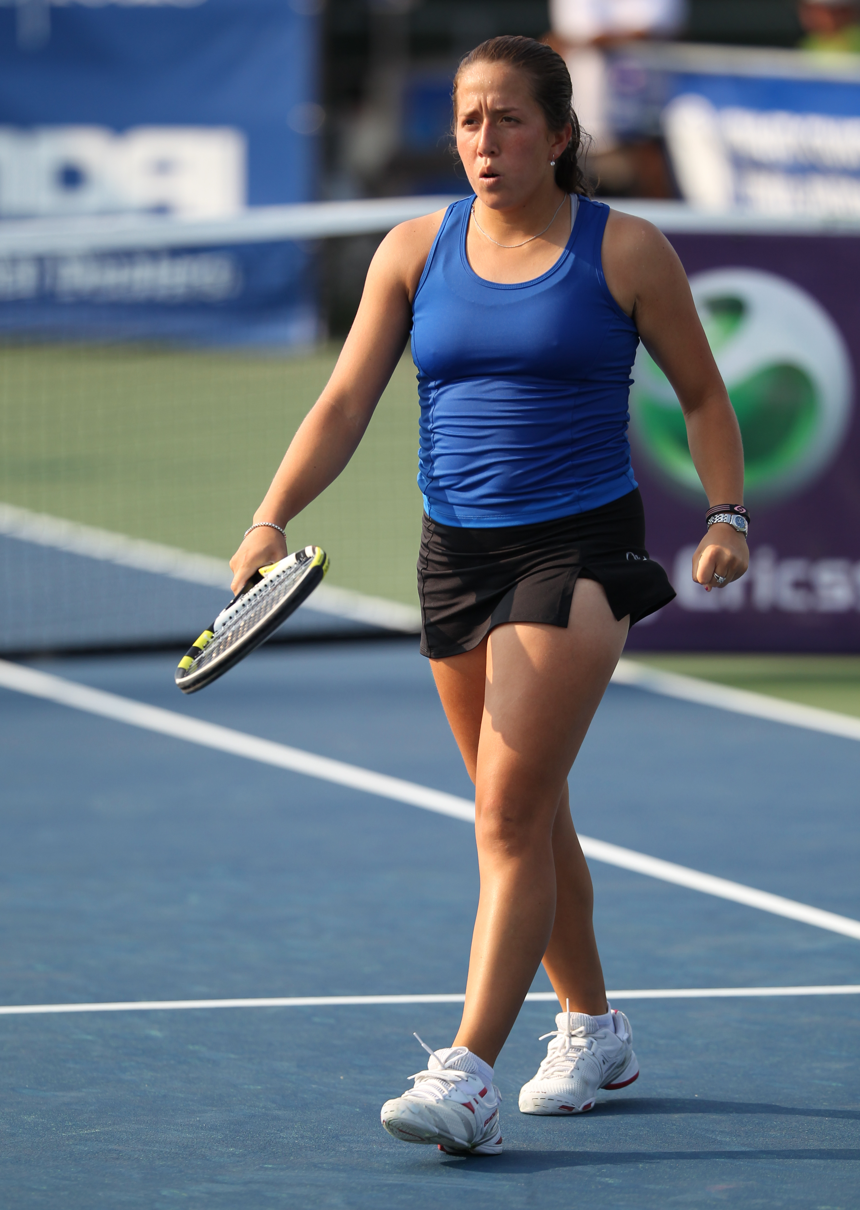 Irina Falconi in Citi Open Tennis on July 29, 2011